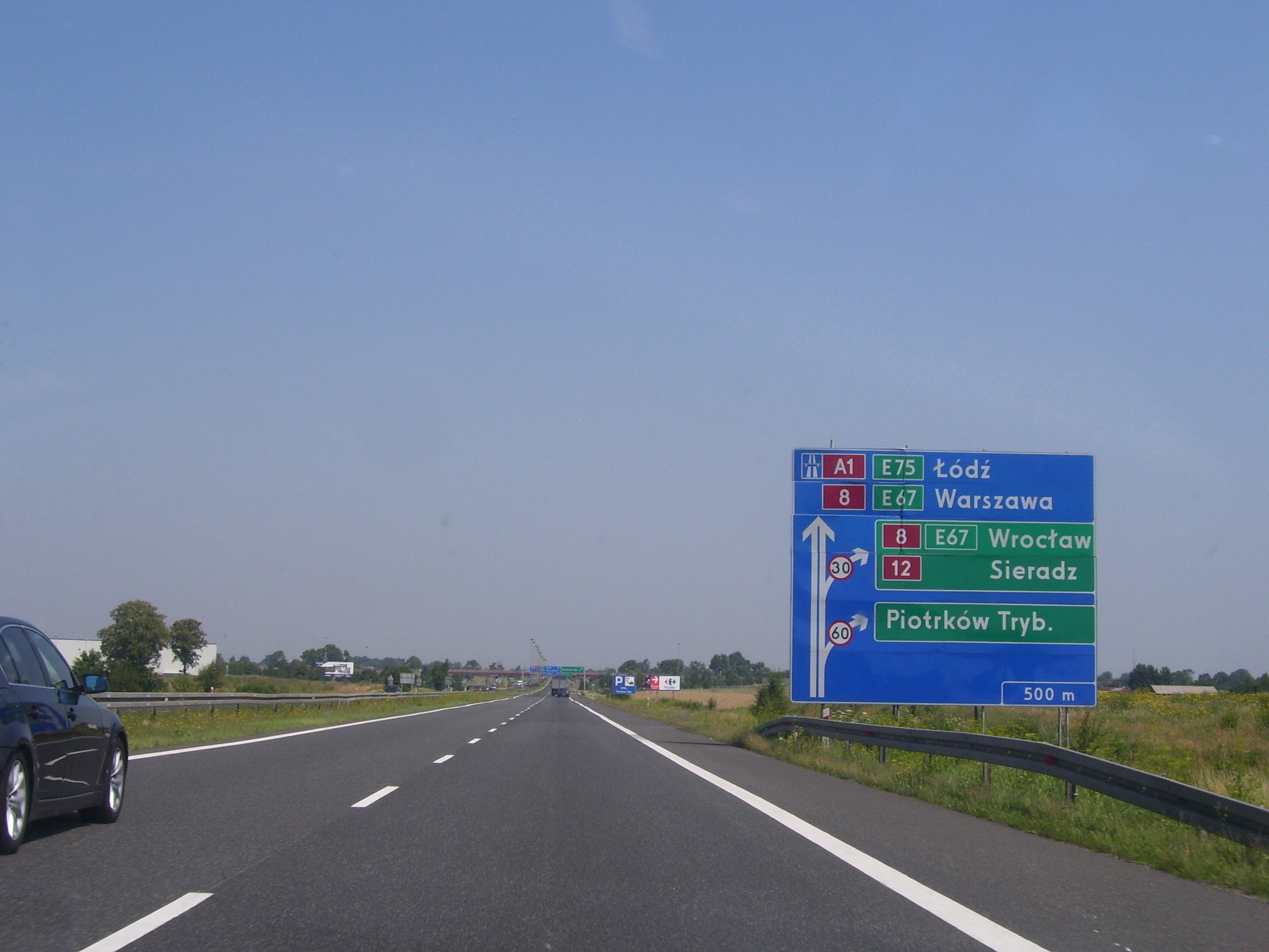 Road A1 in Poland.